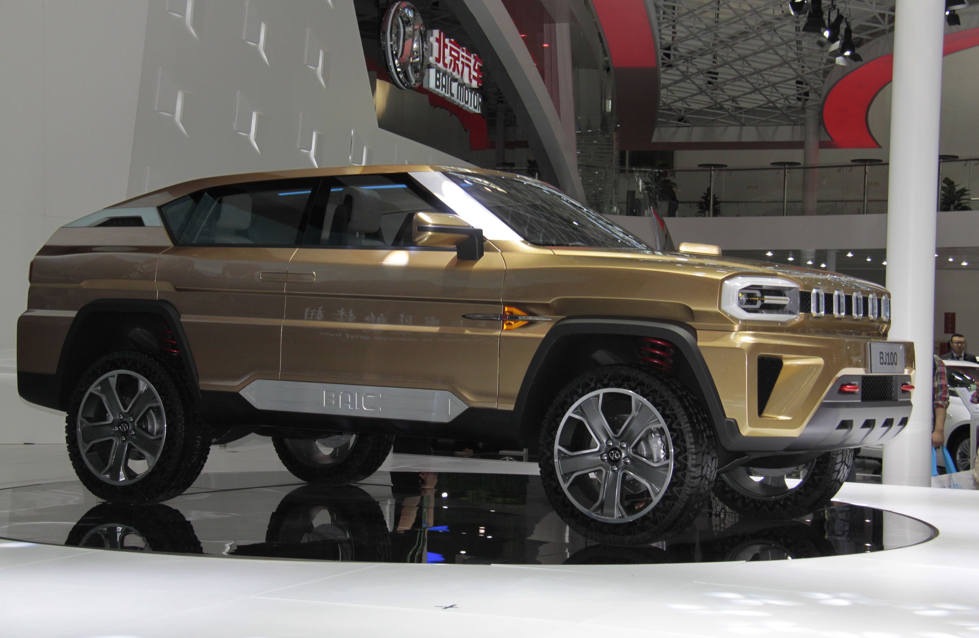 BAIC BJ100 concept at Auto China 2014 (Beijing)